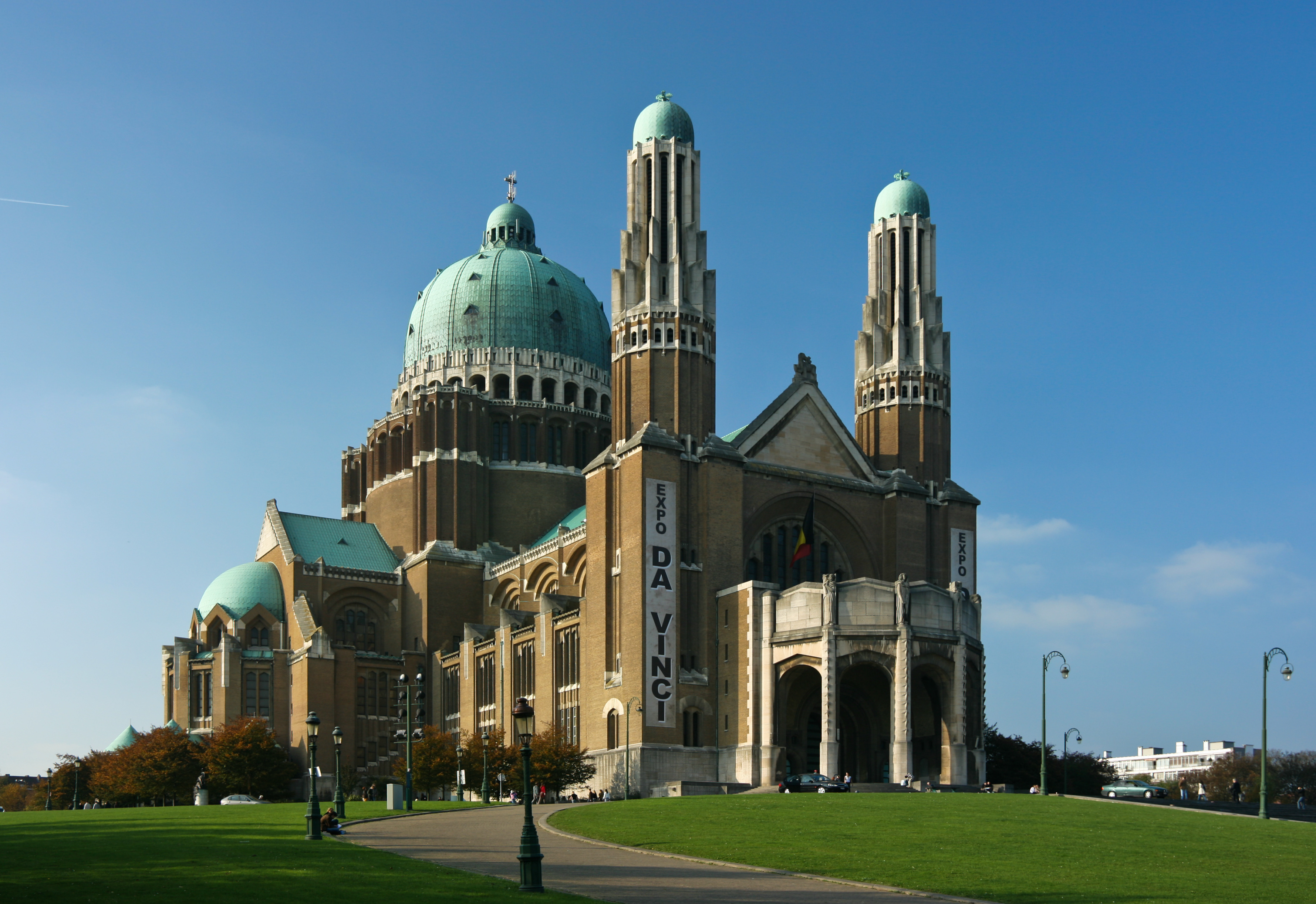 Basilica of the Sacred Heart, Brussels, Belgium; with da Vinci expo banners.